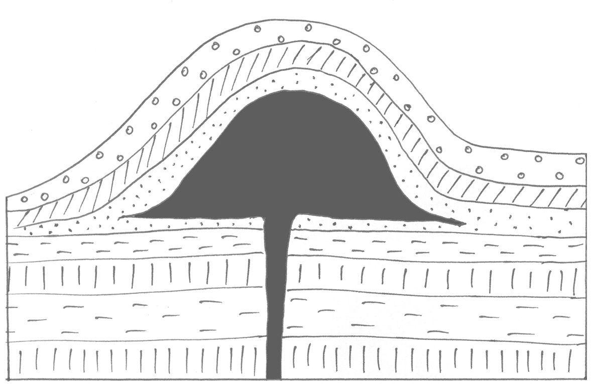 Laccolith a concordant intrusion with flat floor and convex upper surface.